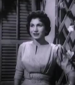 Faiza Ahemd singing "Ya Halawtak Ya Gamalak" in the film of "Al Millionaire Al Faqir".